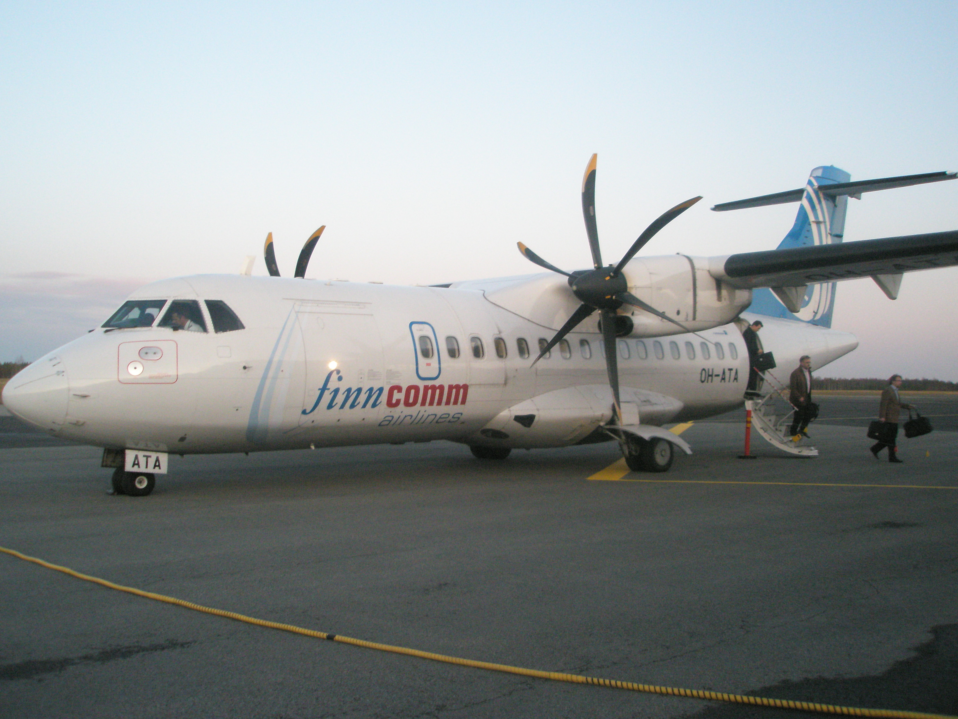 Finncomm Airlines ATR42-500 at Seinäjoki Airport on October 14, 2008.